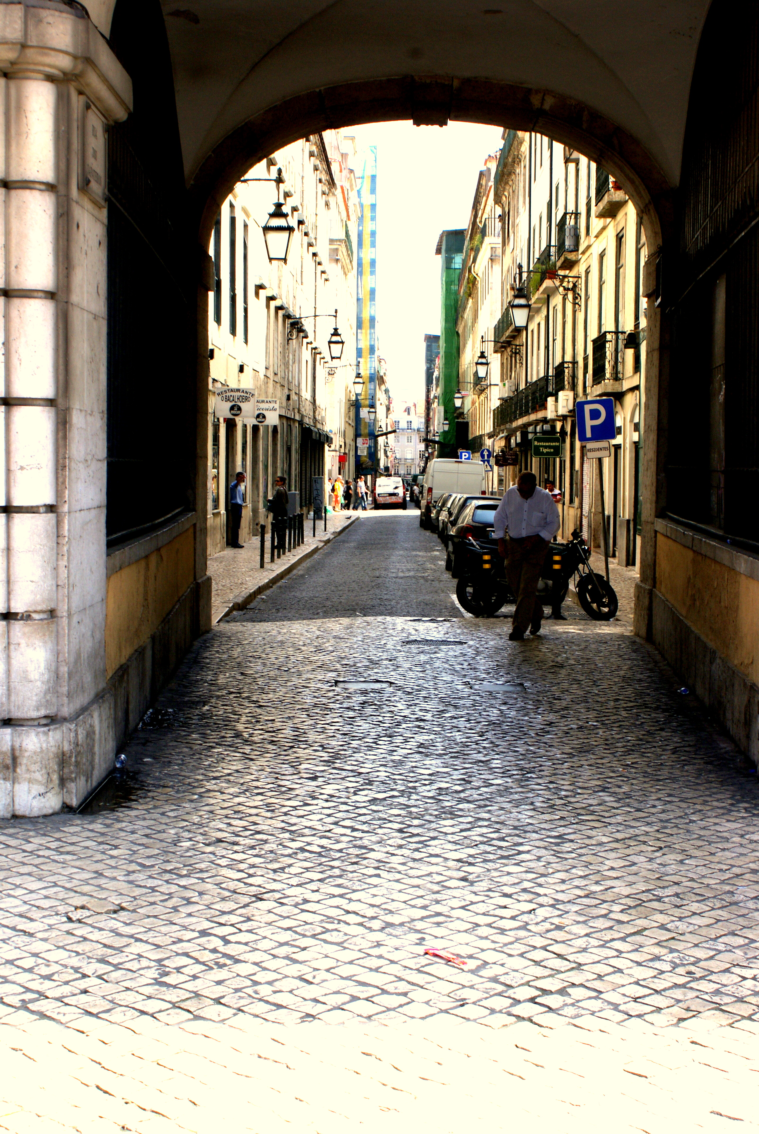 This file was uploaded for Wiki Loves Monuments in Portugal with the unique identifier 71831.